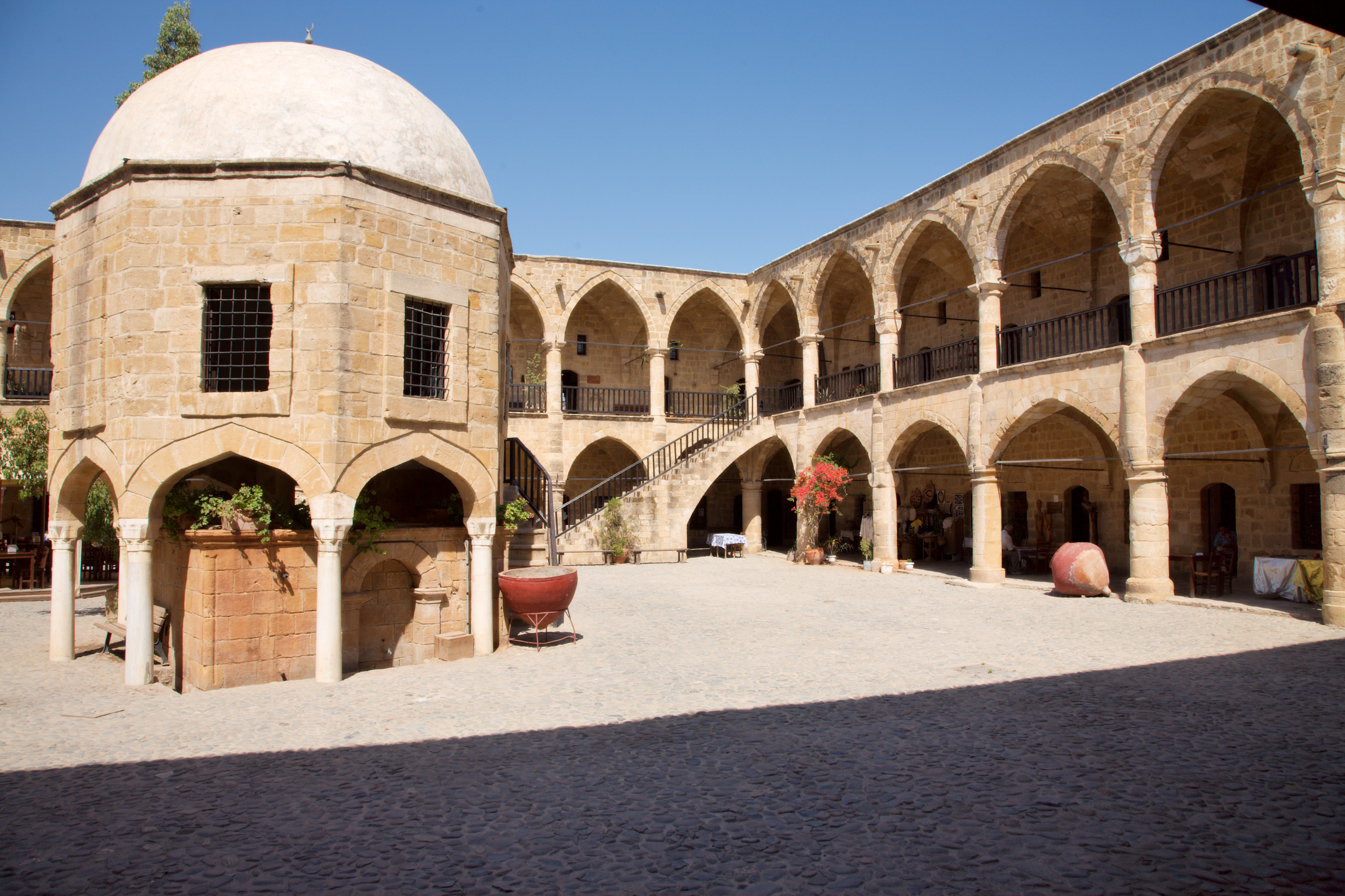 Buyuk Han in Nicosia (nothern part) Buyuk Han in Nicosia